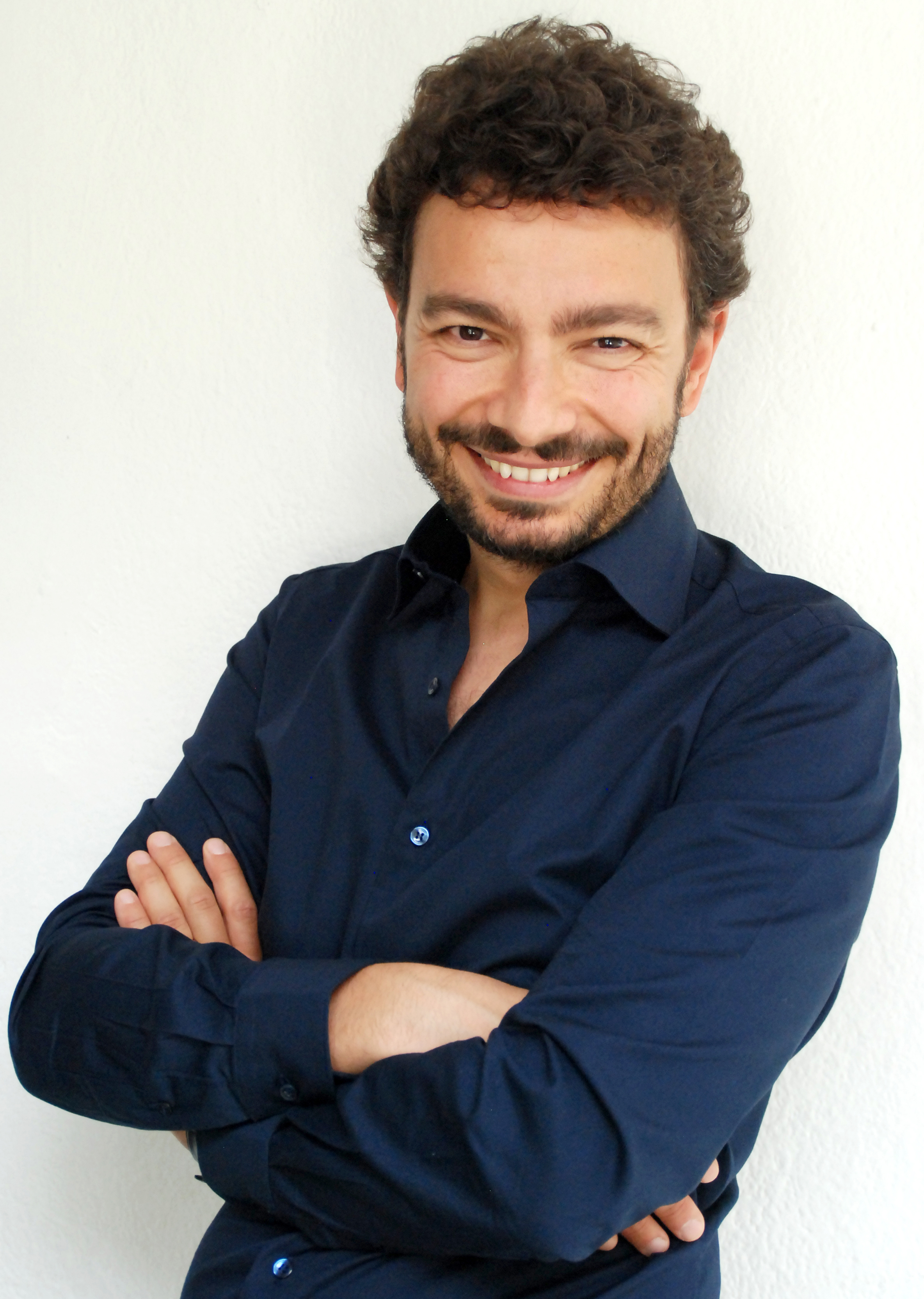 Author and skeptic Massimo Polidoro (photo taken by Roberta Baria, 2014).